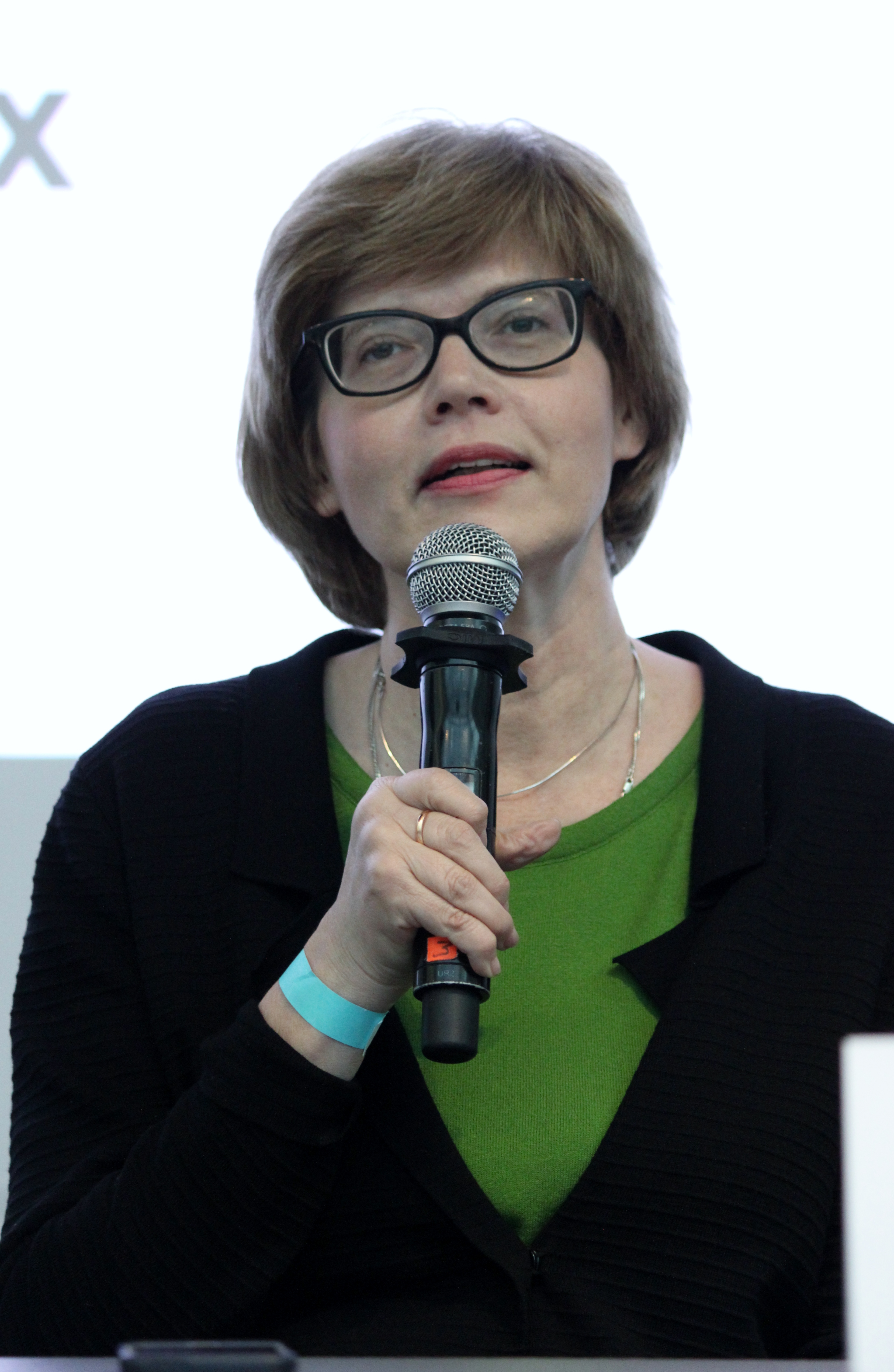 Russian writer Maya Kucherskaya at the 21 Moscow International Fair Non/fiction 2019